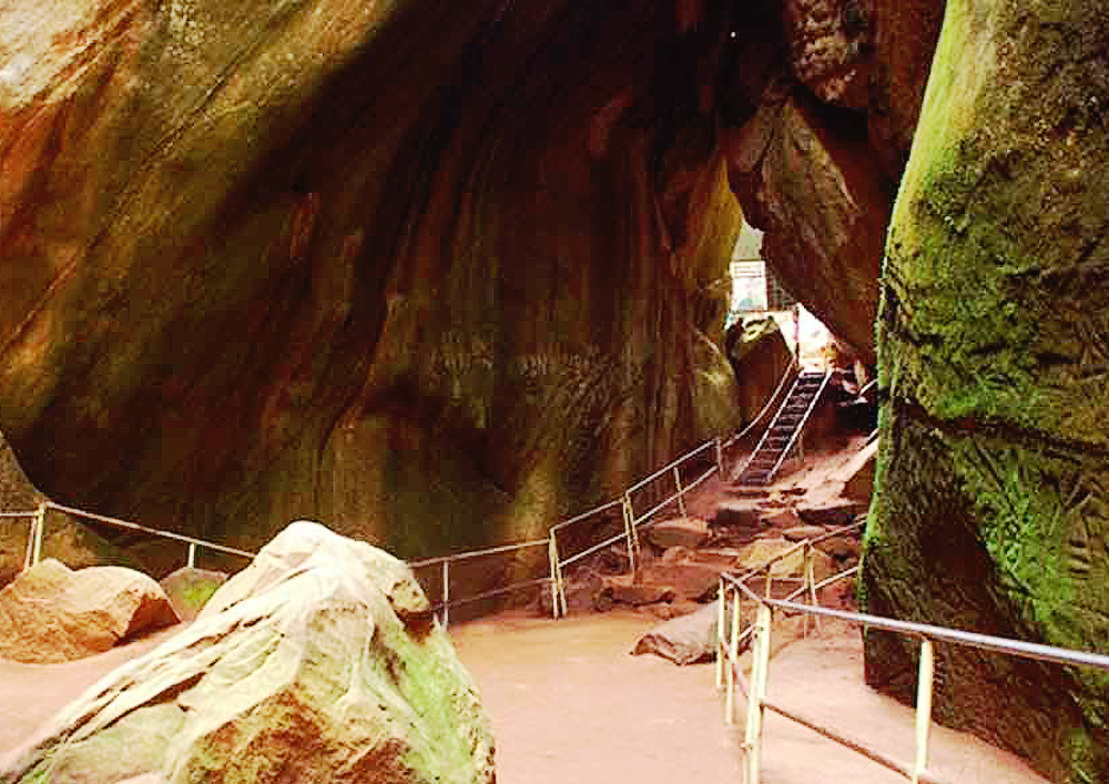 Interiors of Cave at Edakkal